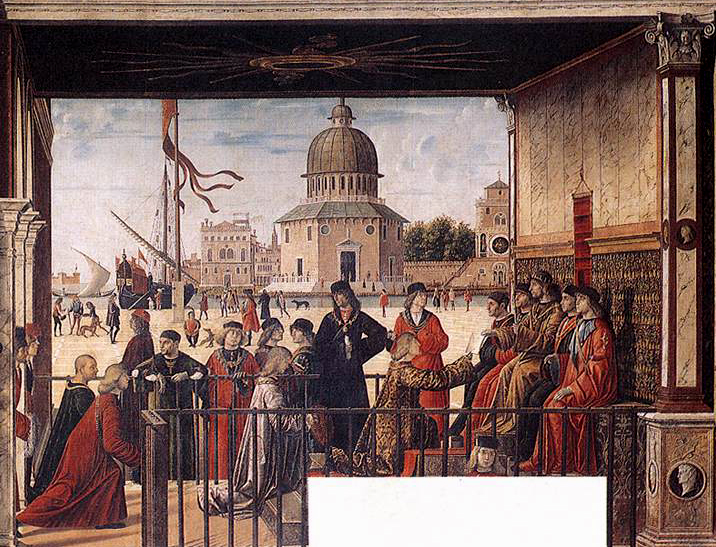 CARPACCIO, Vittore Arrival of the English Ambassadors Tempera on canvas, 275 x 589 cm Gallerie dell'Accademia, Venice